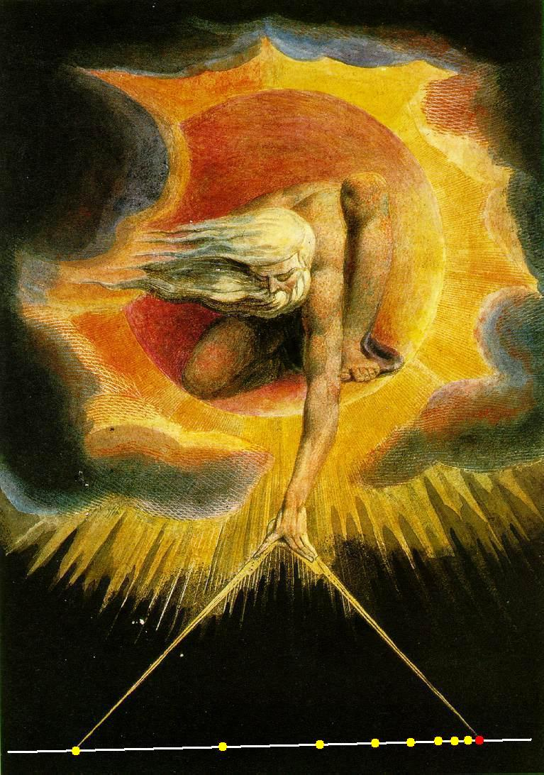 The God can according to Bolzano see the limit of any Cauchy sequence